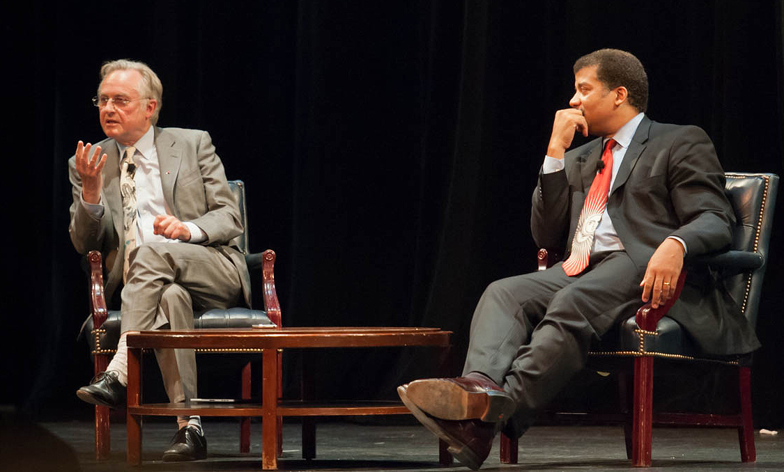 Neil deGrasse Tyson in conversation with Richard Dawkins at Howard University. September 28, 2010